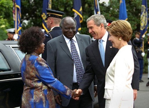 U.S. President George W. Bush and Mrs. Laura Bush welcome President Mwai Kibaki and Mrs. Kibaki of the Republic of Kenya to the White House Monday, October 5, 2003.